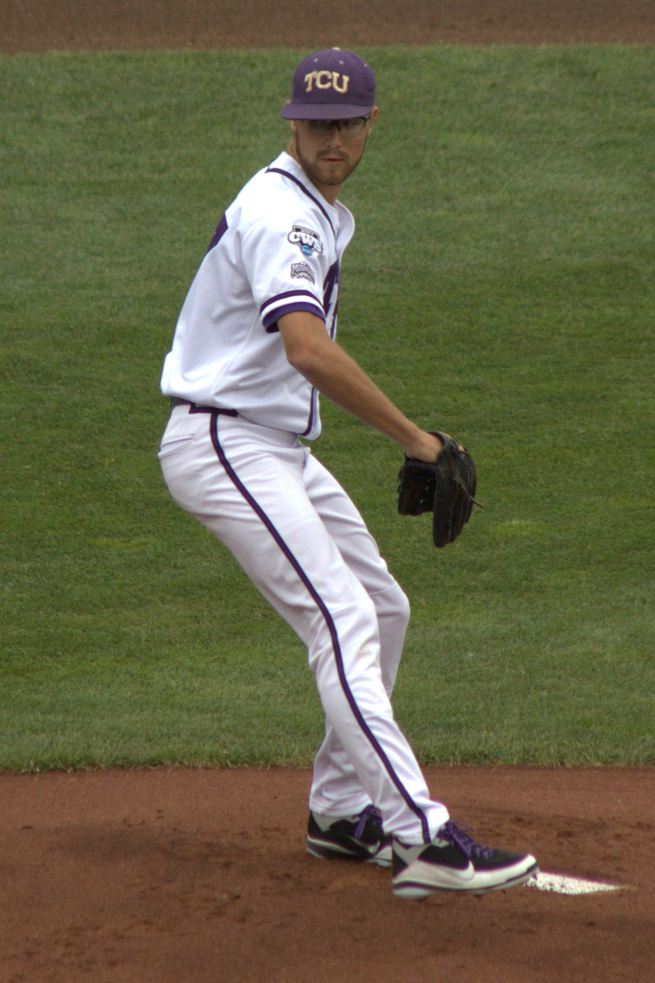 Matt Purke pitching in Game 1 of the 2010 College World Series.